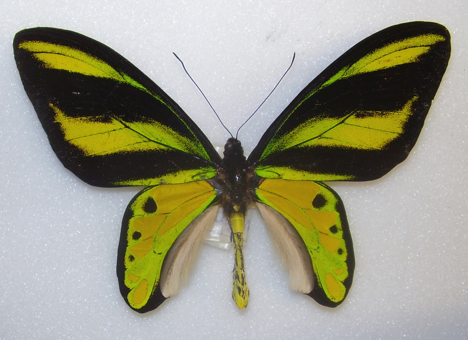 Ornithoptera tithonus Haan Male, upperside. Lake Anggi,Arfak Mountains, West Irian 19 May 1977